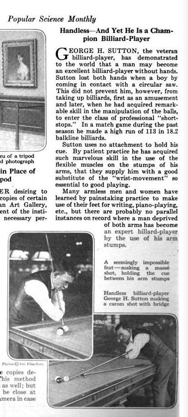 Miraculous George H. Sutton plays championship billiards with no hands. Literally. Article originally appeared in Popular Science Monthly in 1918.